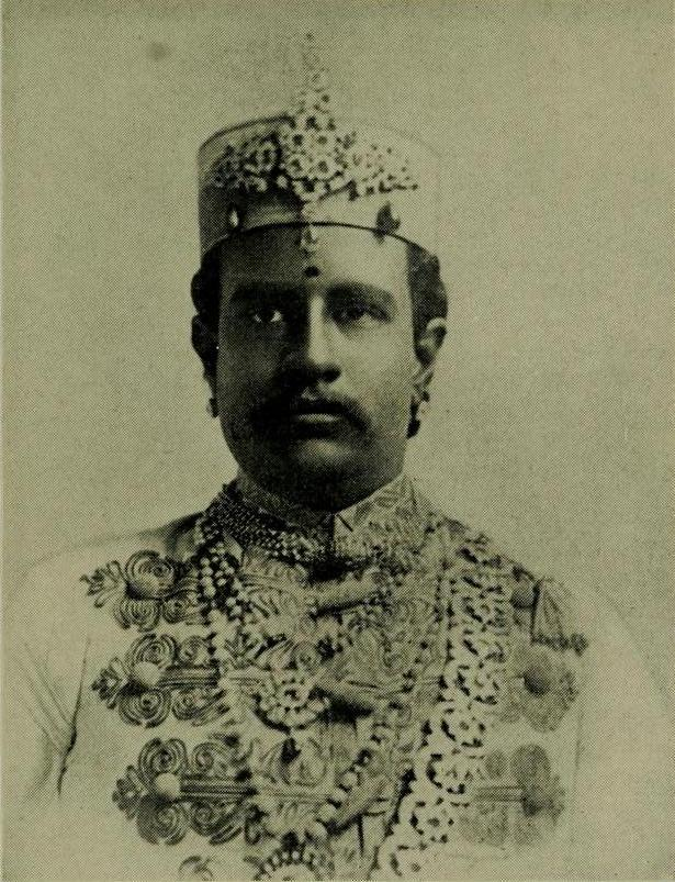 Bhaskara Sethupathy was the Raja of Ramnad from 1889–1903.He was the leader of the Maravar People